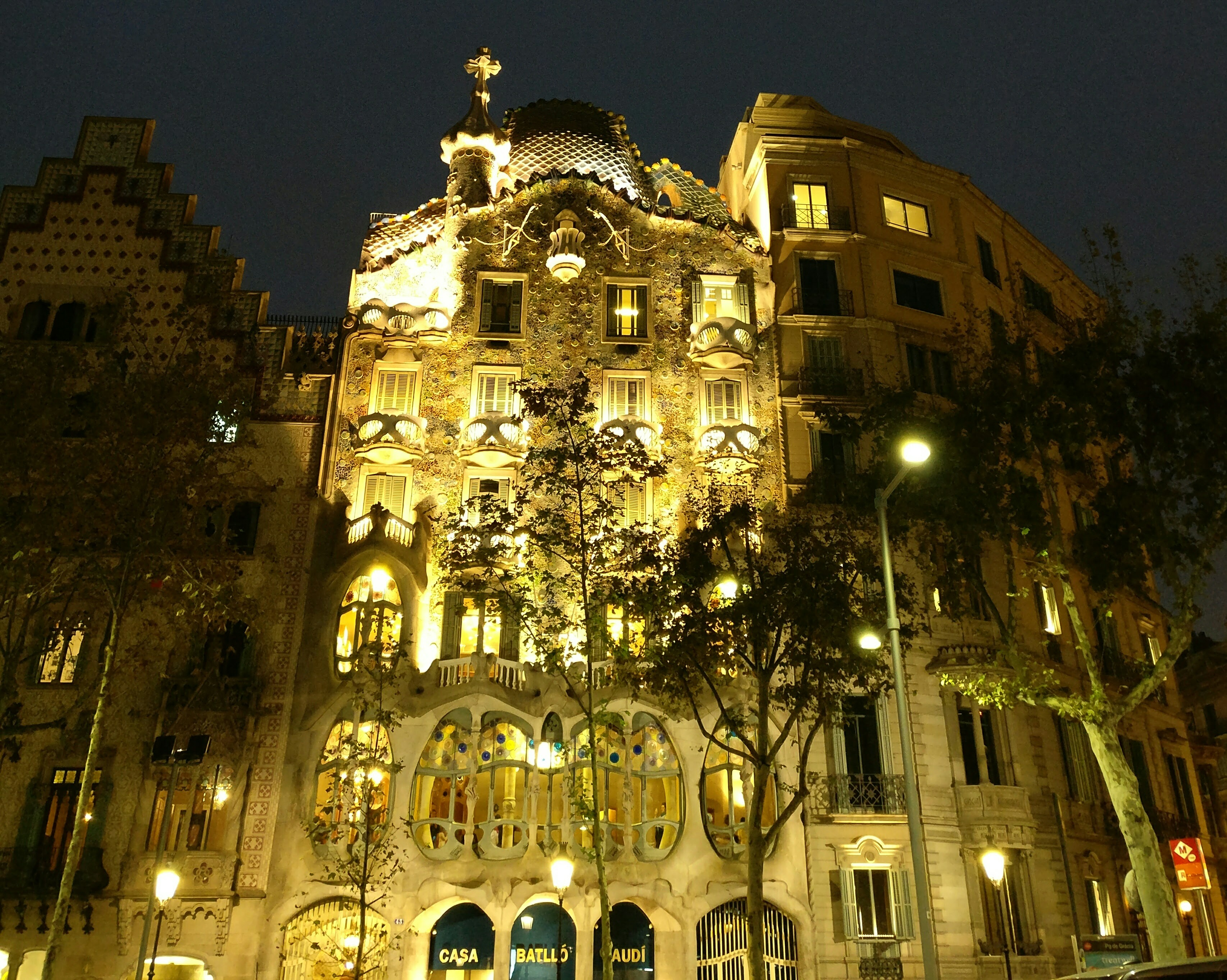 Casa Batlló is a renowned building located in the centre of Barcelona and is one of Antoni Gaudí’s masterpieces.